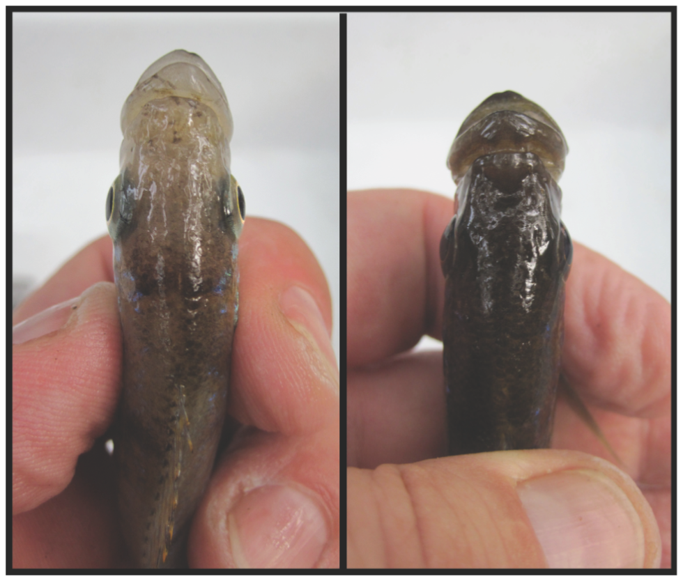 Dorsal view of right-bending (left) and left-bending (right) mouth morphs of the Lake Tanganyikan scale-eating cichlid fish, Perissodus microlepis.